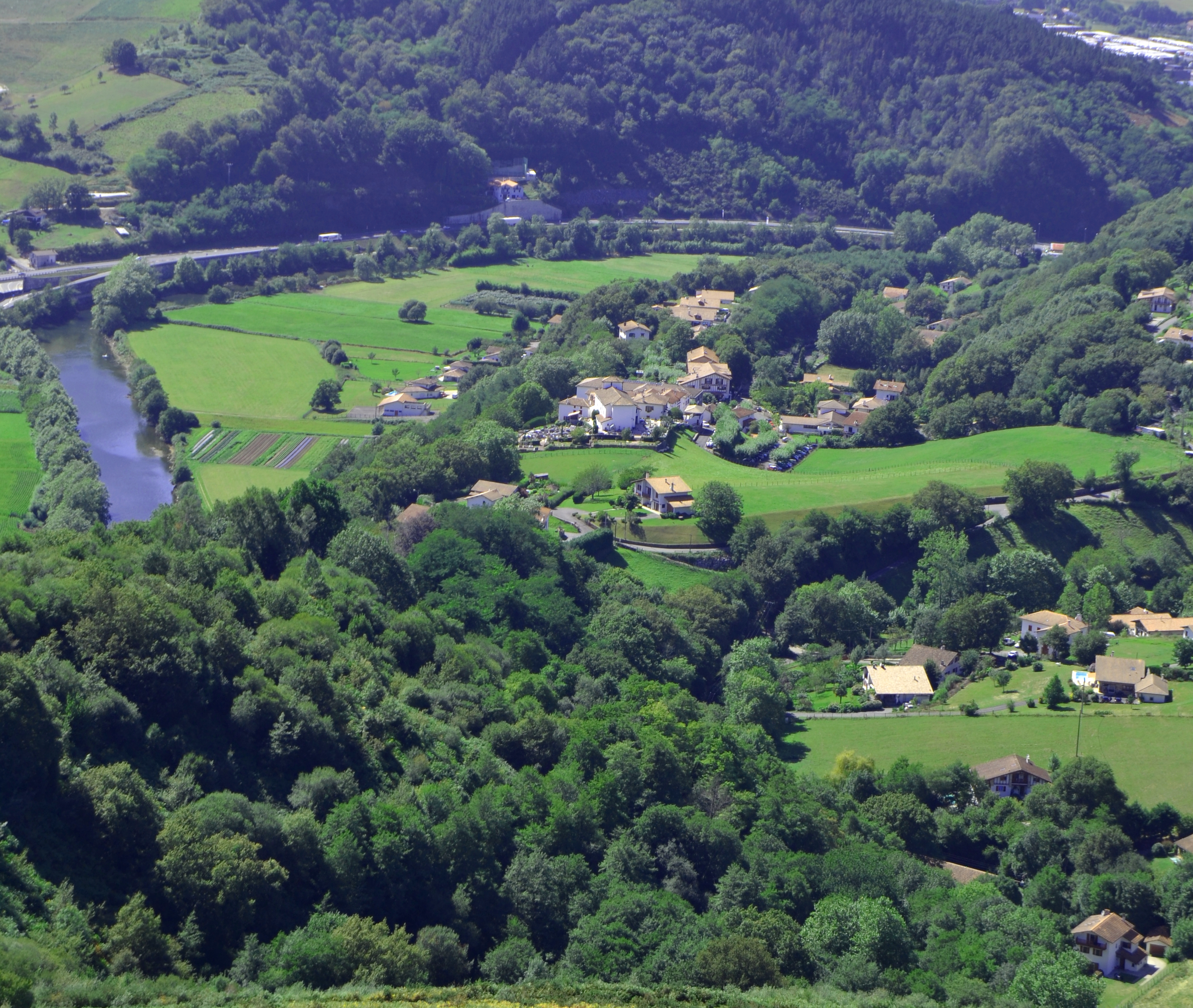 Biriatou. Labourd, Basque Country.